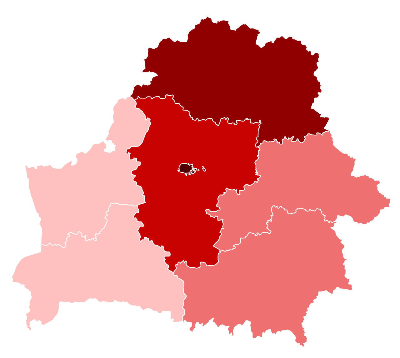 Map of regions with confirmed (red) or suspected (blue) coronavirus cases (as of 2020.03.13)